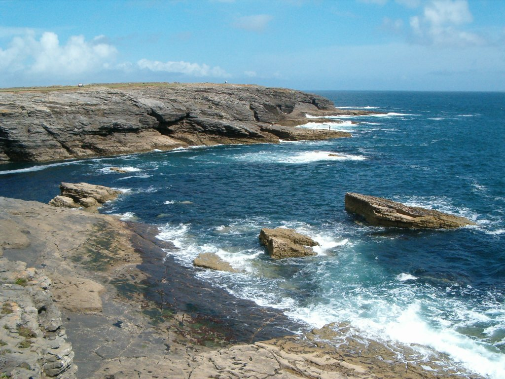 Hook Head, County Wexford, Ireland